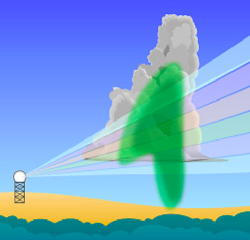 The strongest returned energy for each elevation angle in a volume scan is compiled into one image called, simply, composite reflectivity. Whereas the base reflectivity image is the first image available during a volume scan, the composite reflectivity image is one of the last views necessitated by the need for all elevation scans to be completed before this image can be produced.